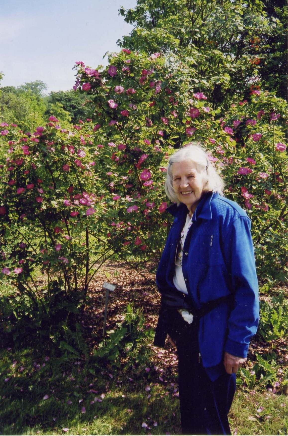 Swedish genealogist, born in Malmö 1917, dead in Gothenburg 2009. Work about people and places in Gothenburg 1637-1807.